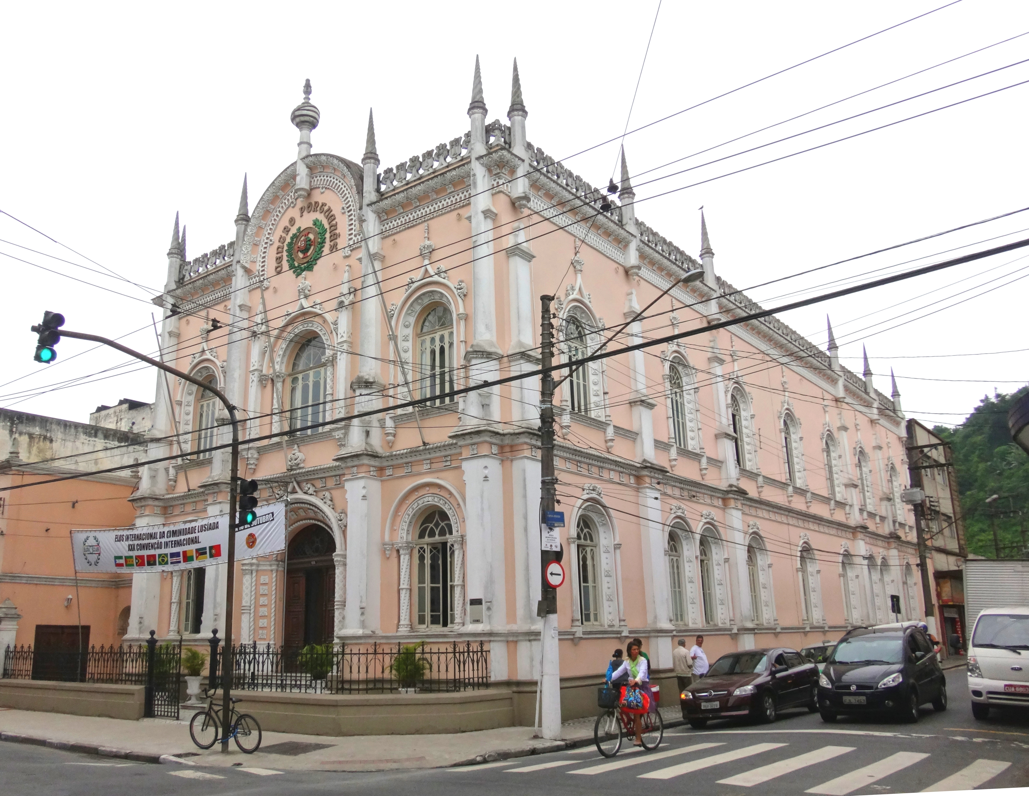 Building of the Centro Cultural Português (Portuguese Culture Centre) in Santos, Brazil.